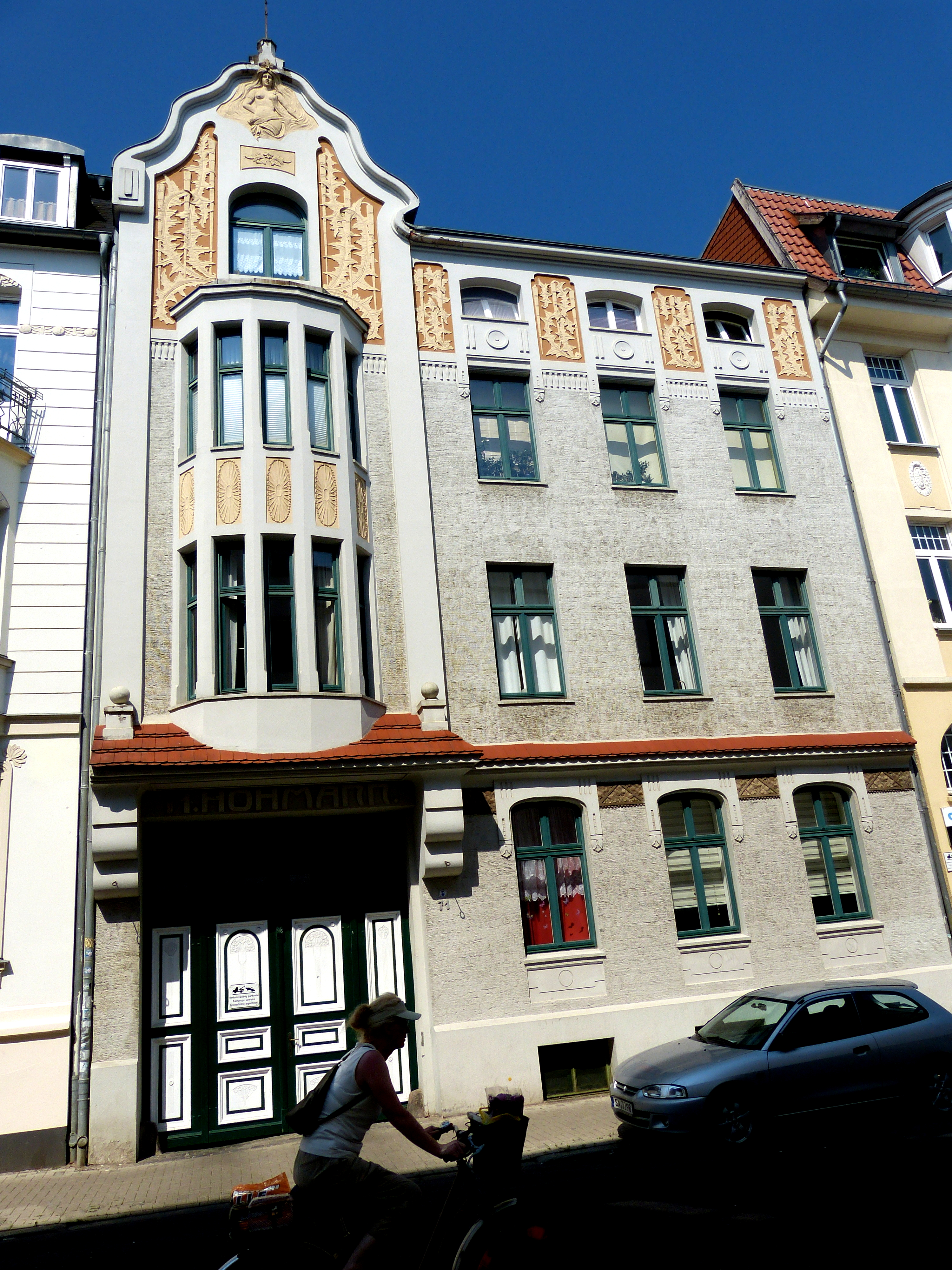 Schwerin ( Mecklenburg ). Mecklenburg street No. 71 - Art Noveau house.